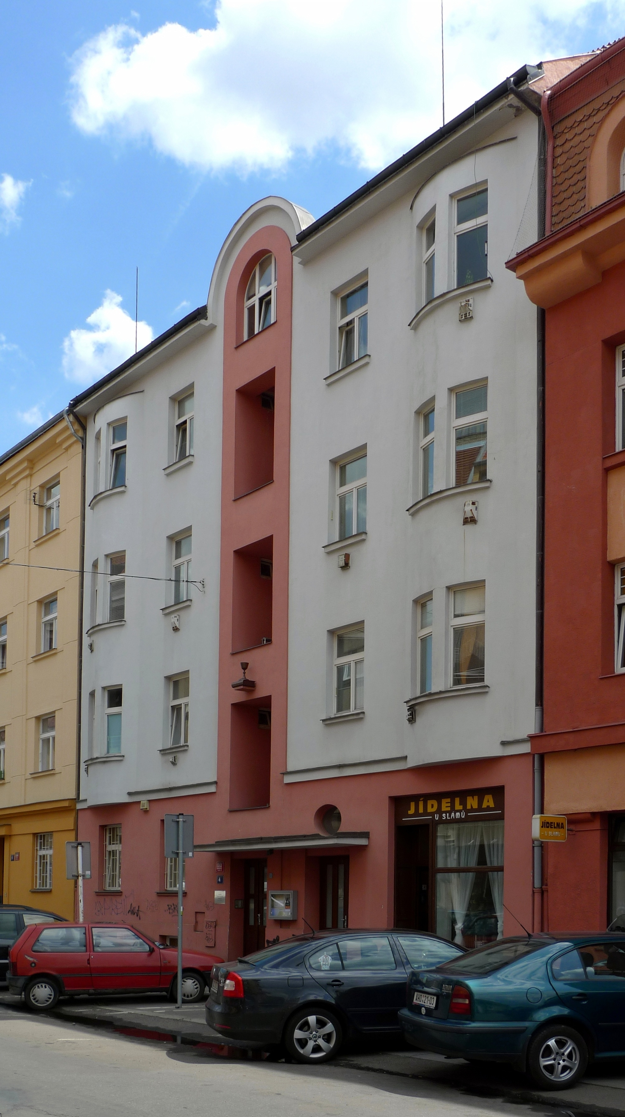 Parish church of the Evangelical church in Prague 10 - Strašnice